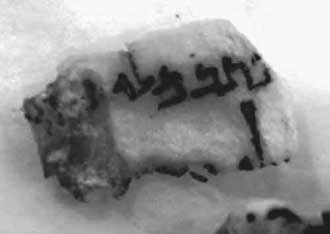 Fragment of the Dead Sea Scrolls Photographed Using Infrared Digital Imaging by NASA 1993/1994.